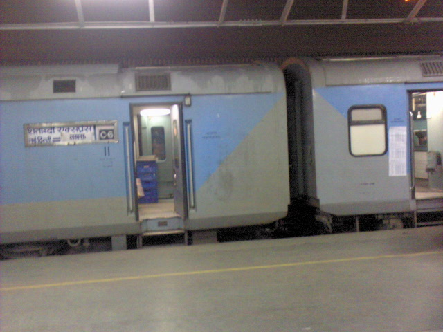 Lucknow bound shatabdi express is about to leave New Delhi railway station